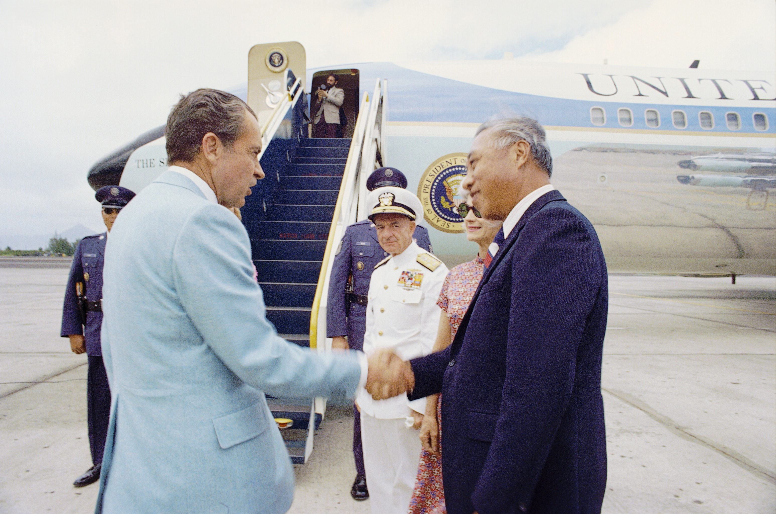 President Richard Nixon Shakes Hands with Senator Hiram Fong Prior to Departing for Guam from Kaneohe Marine Corps Air Base in Hawaii, 2/20/1972